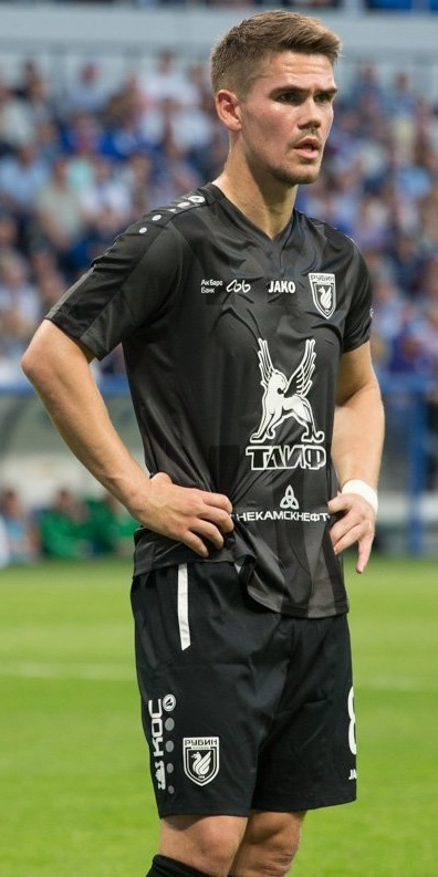 Viðar Örn Kjartansson with FC Rubin Kazan in a game against FC Dynamo Moscow.